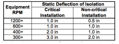 Heuristics for critical vibration isolation